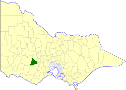 Location of the former Shire of Ripon within Victoria.